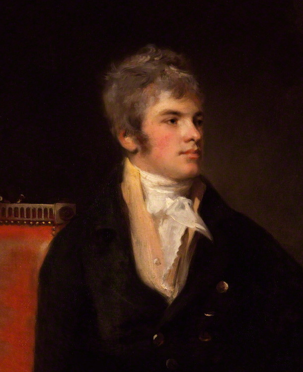 Portrait of Henry Petty-Fitzmaurice, 3rd Marquess of Lansdowne